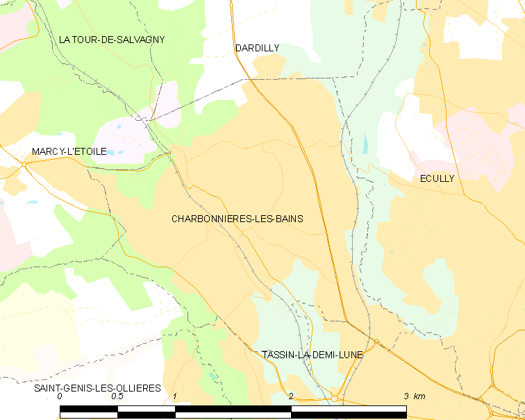 Map of French municipality